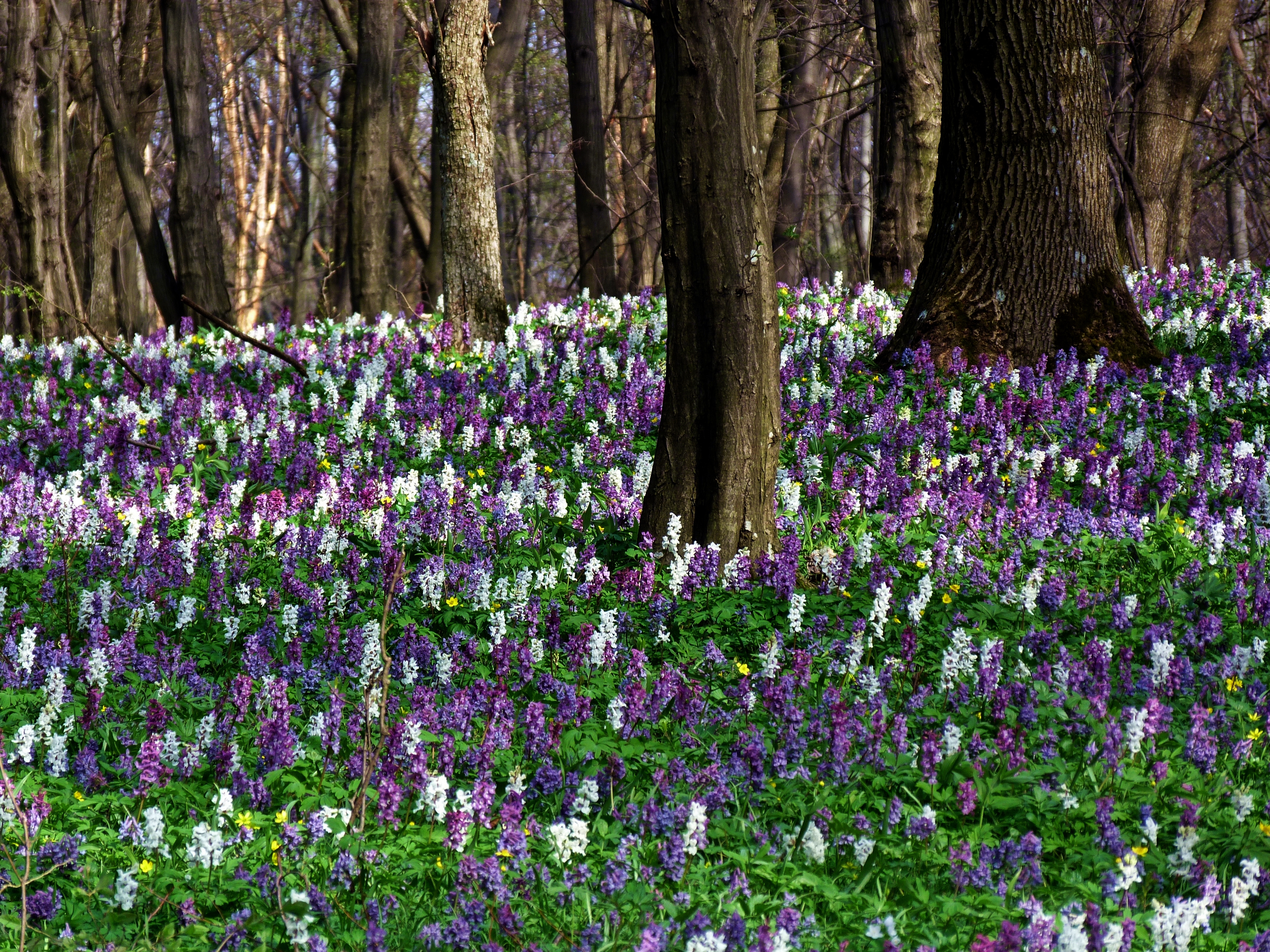 Field of Corydalis cava